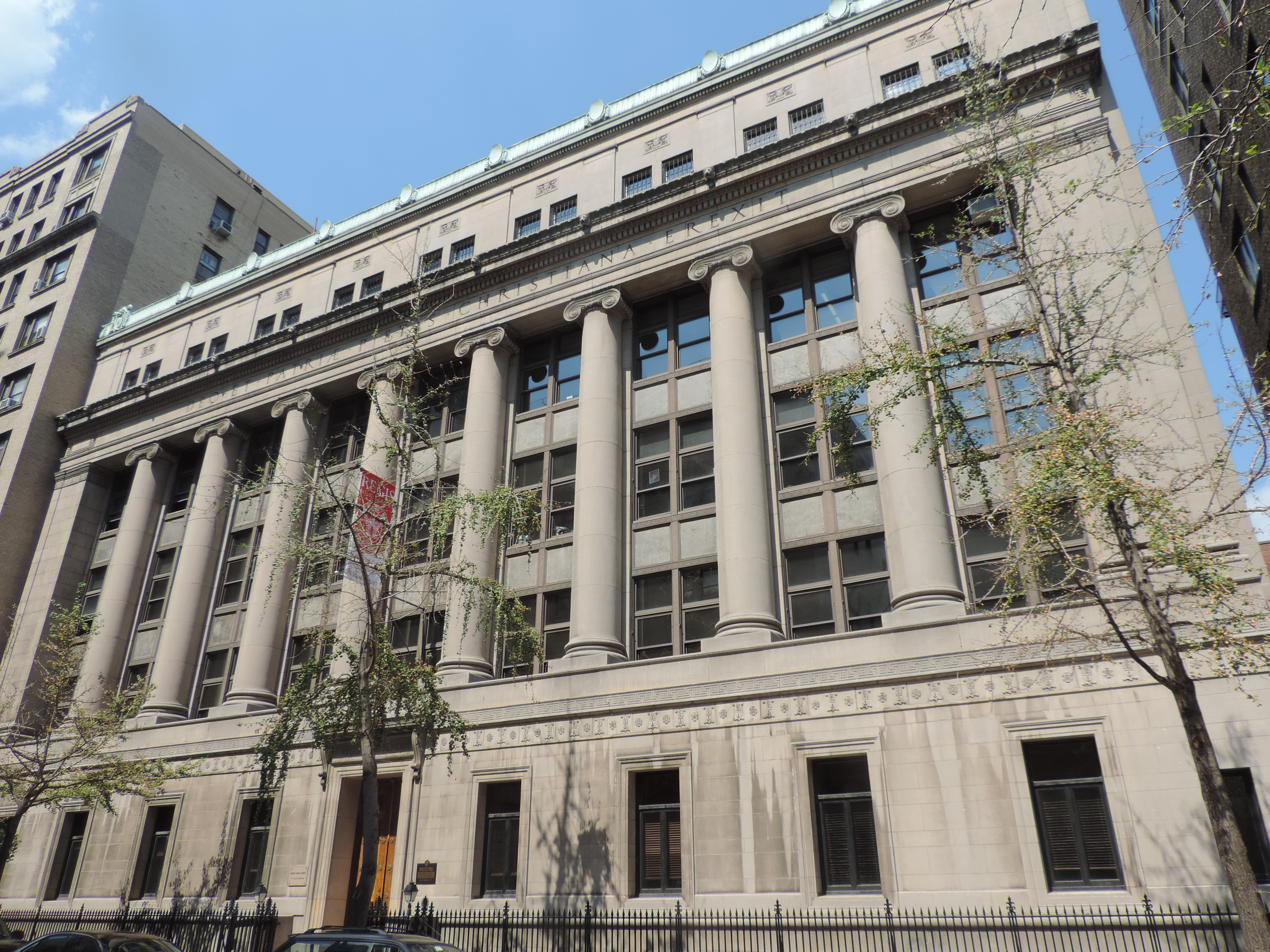 Looking north across 84th on a sunny midday.